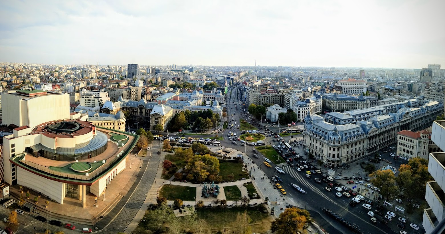 Bucharest city center - University square with the Bucharest University Building in the Right, the National Theatre on the left and the Palace of the Parliament in the far left, in the background.